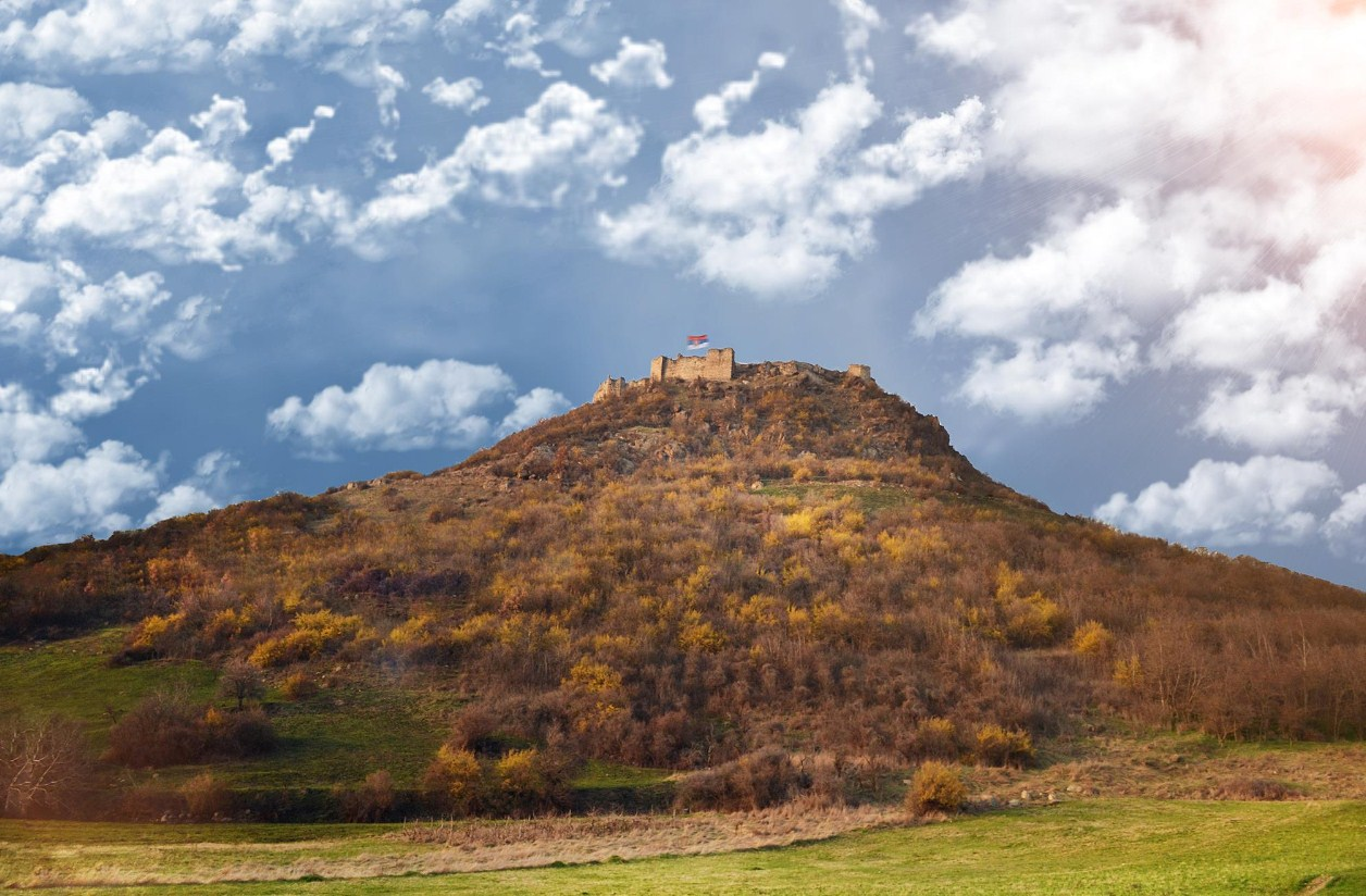 Zvečan Fortress Српски (ћирилица): Поглед на тврђаву Звечан.